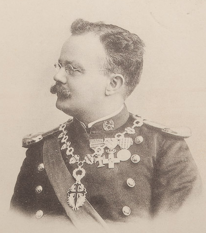 Postcard with a picture of António de Campos Júnior (1850-1917), a military officer, writer, playwright and journalist from Portugal.